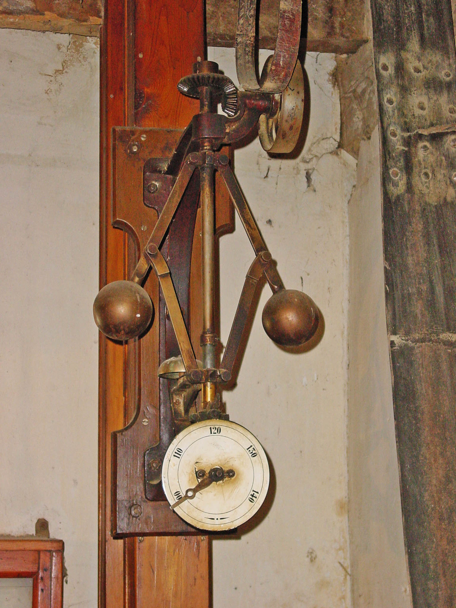 Factory of flour San Antonio, at the dock of the Channel of Castile in Medina de Rioseco, Valladolid Spain. Watt regulator.